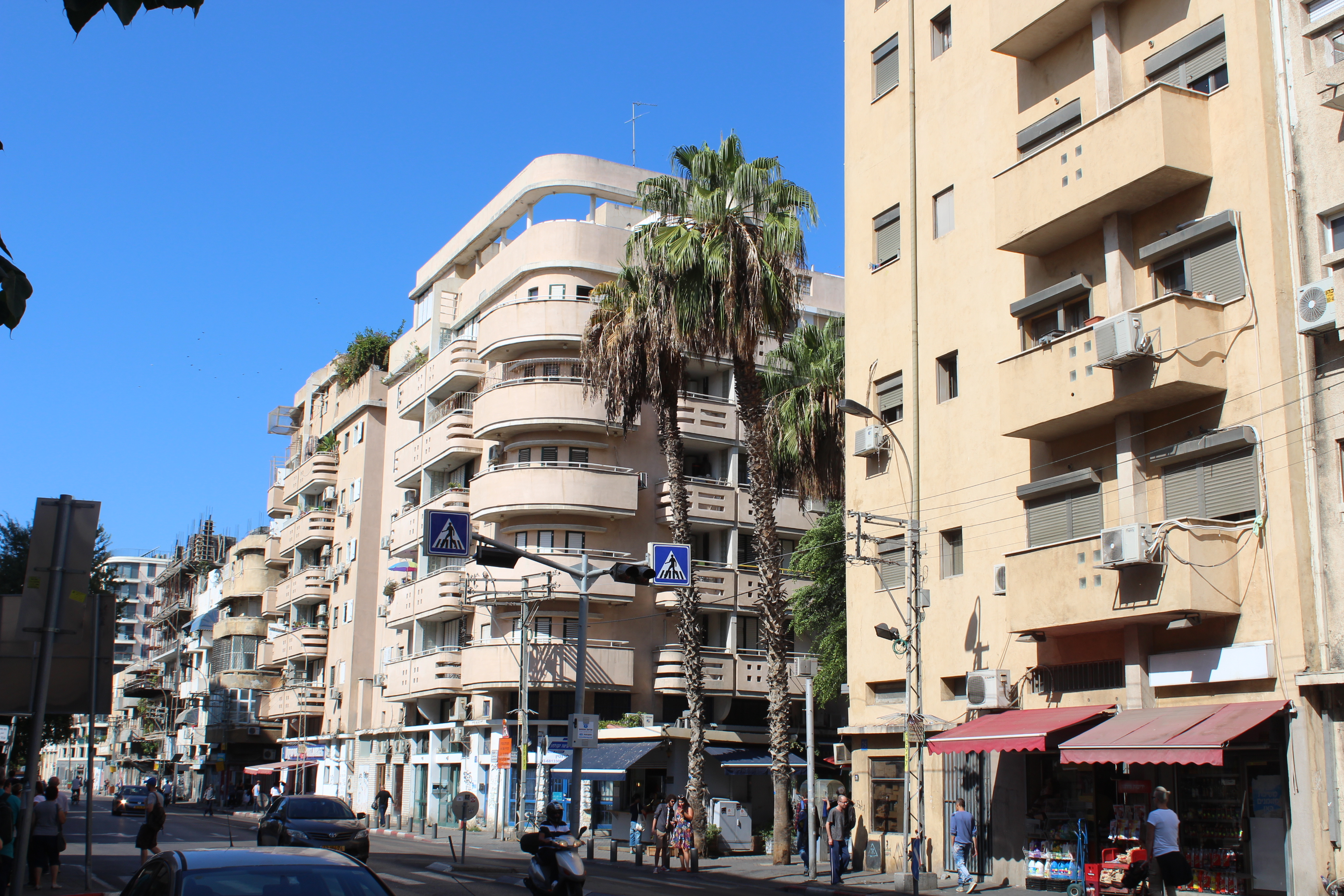 Washington Avenue, Florentin (Tel Aviv) The site's ID in Wiki Loves Monuments photographic competition is 3-5000-030